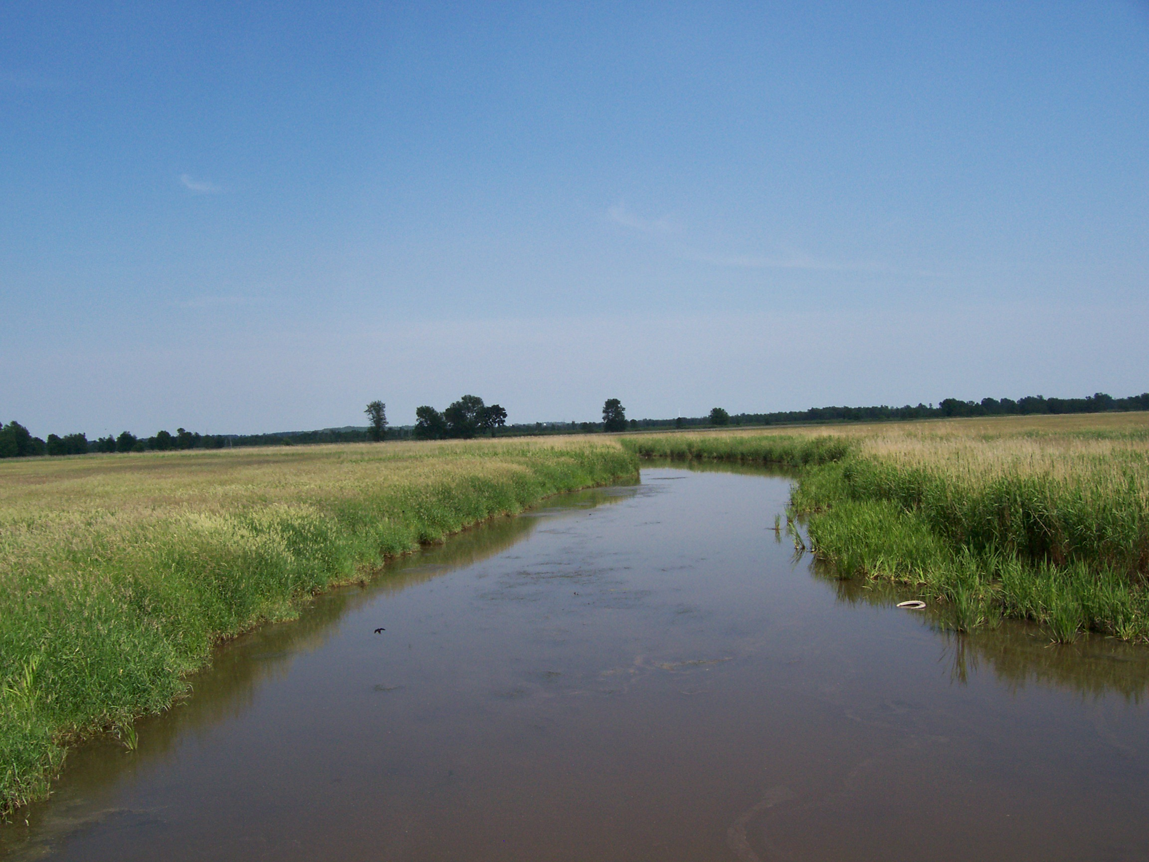 Looking west at the Killsnake River from the bridge on Lemke Road near its junction with theen:Manitowoc River. This image was taken June 15, 2007 by User:Royalbroil